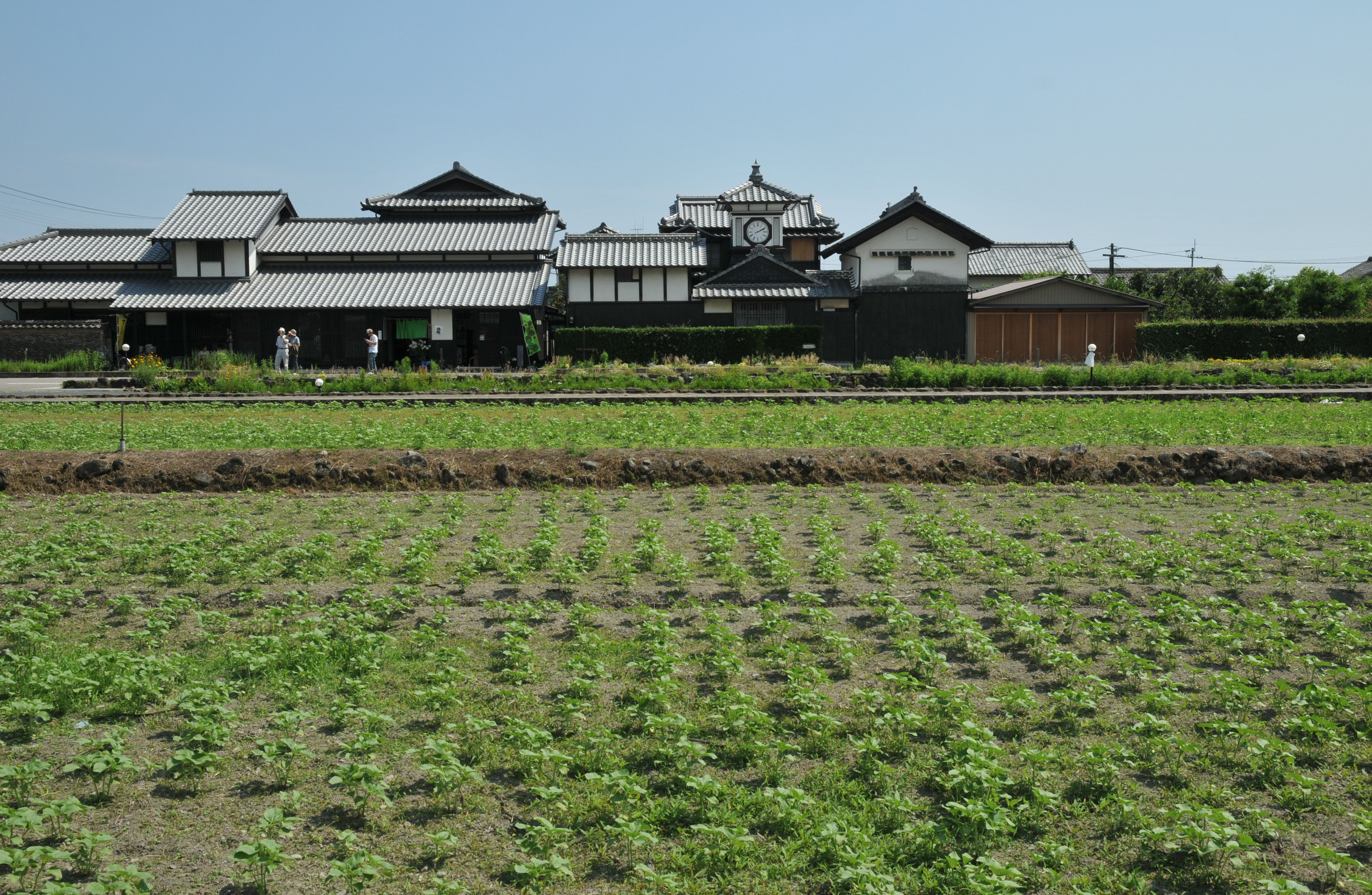 Countryside and Noradokei(the turret clock)